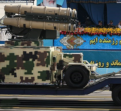 Ya Zahra is an air defence system designed by Iranian engineers